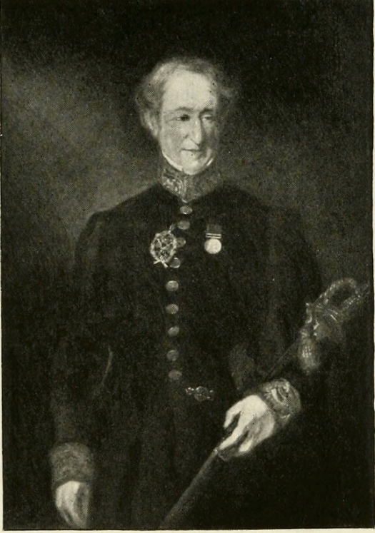 Sir Adam Ferguson, deputy Keeper of the Scottish Regalia. Wearing his Peninsular medal with Salamanca bar. The Edinburgh High School, University and life long friend of Sir Walter Scott.